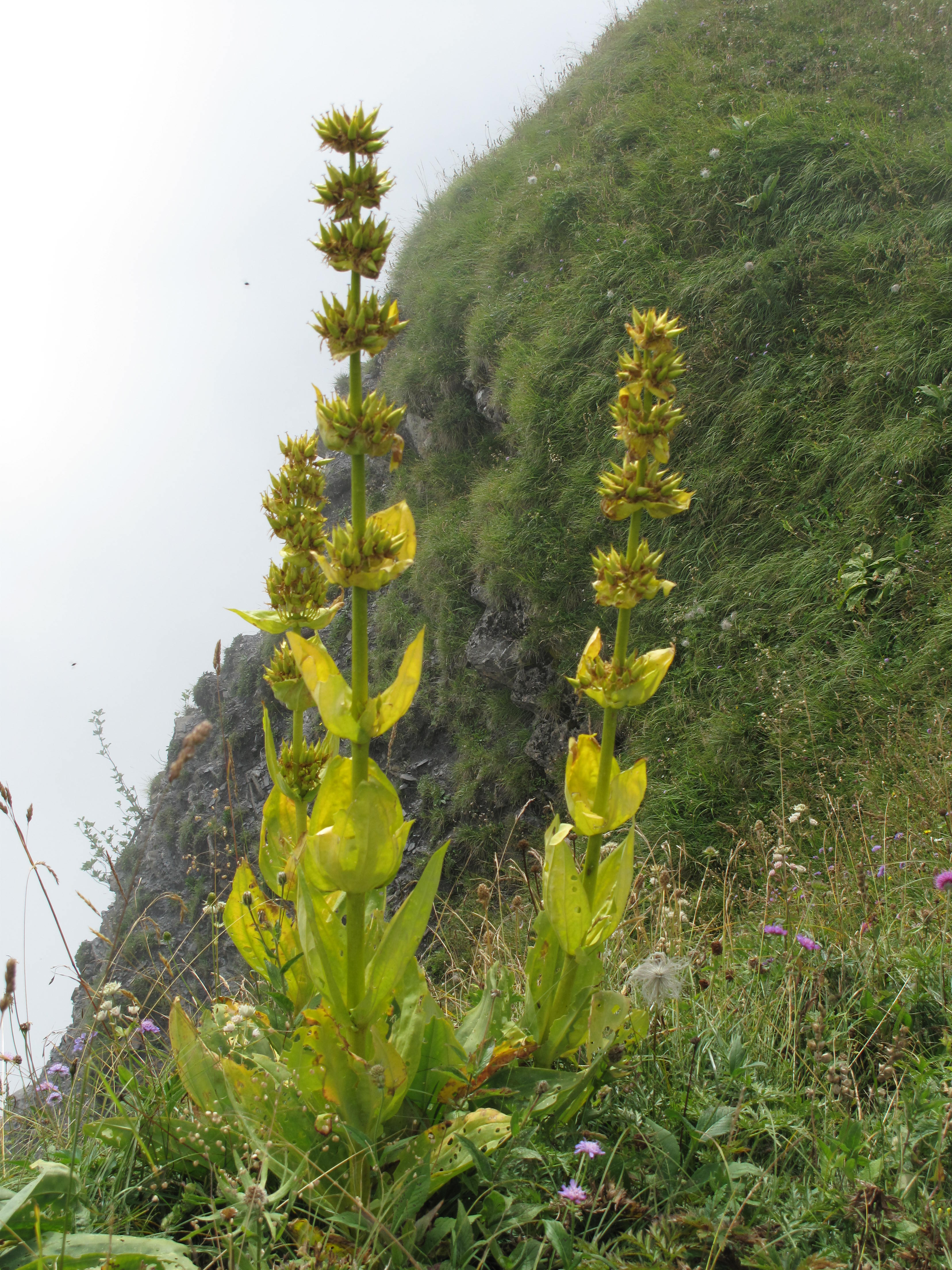 Flowers of great yellow gentian at the mountain pass of Joux-Plane (Haute-Savoie, France).